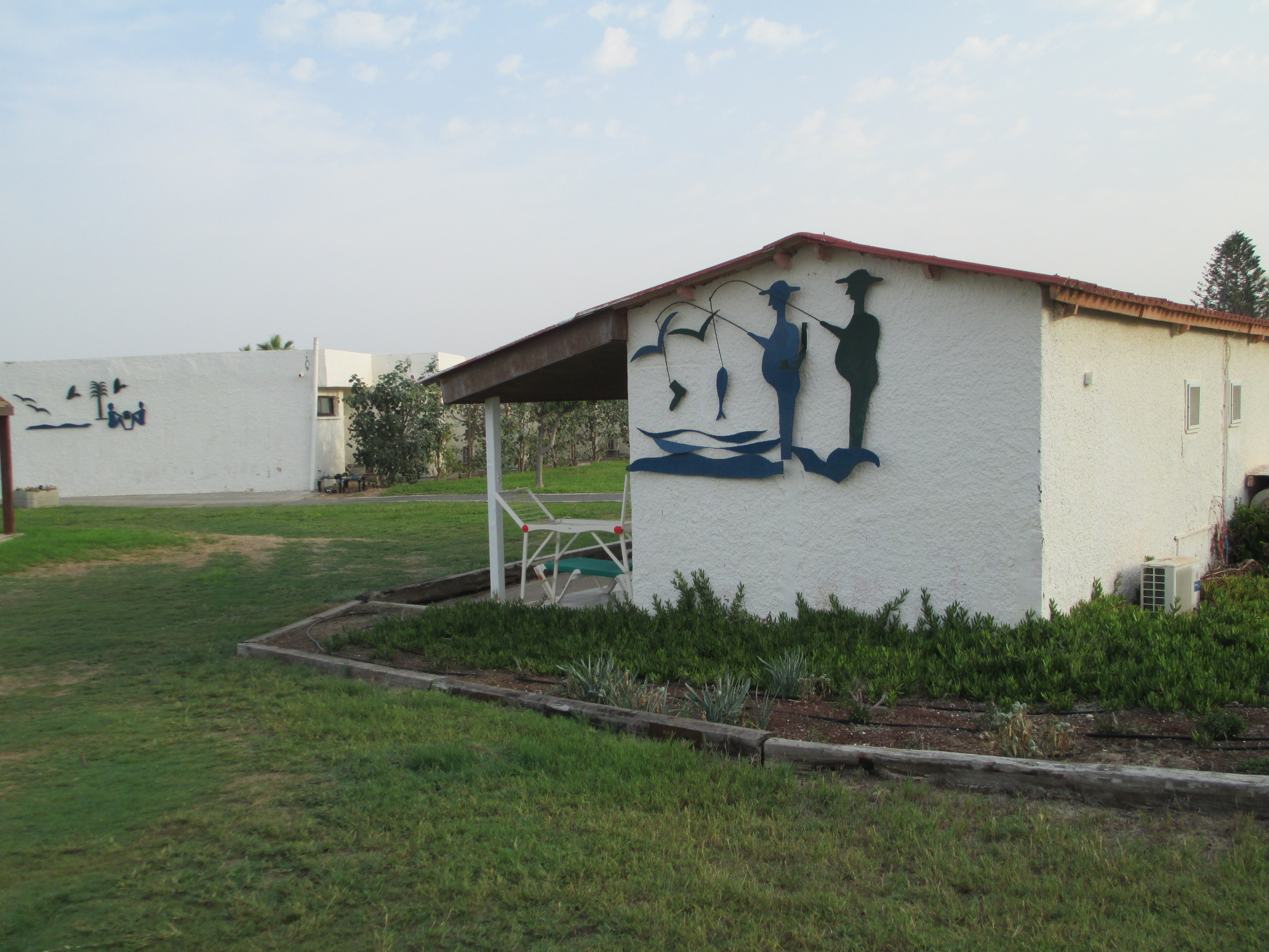 Kibbutz Nahsholim